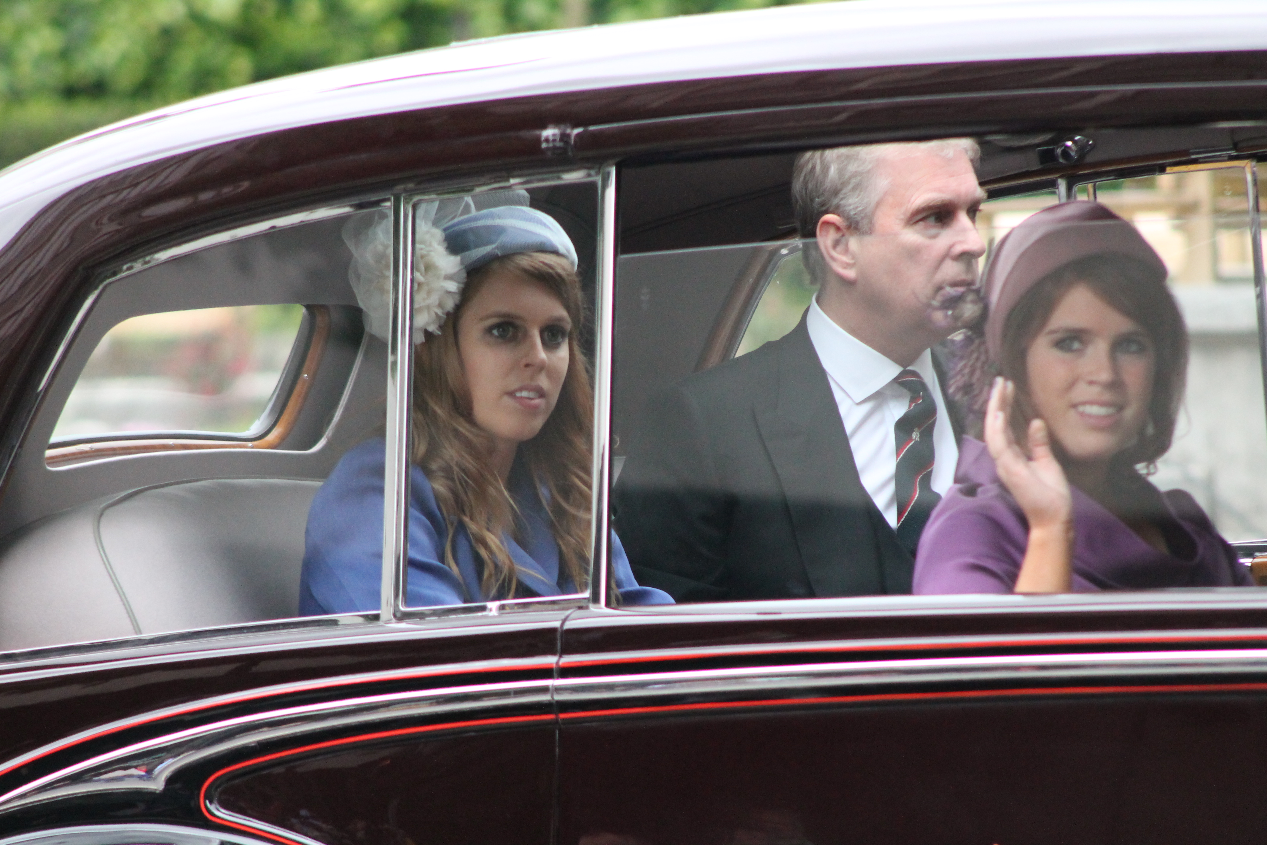 Duke of York & daughters during the Diamond Jubilee